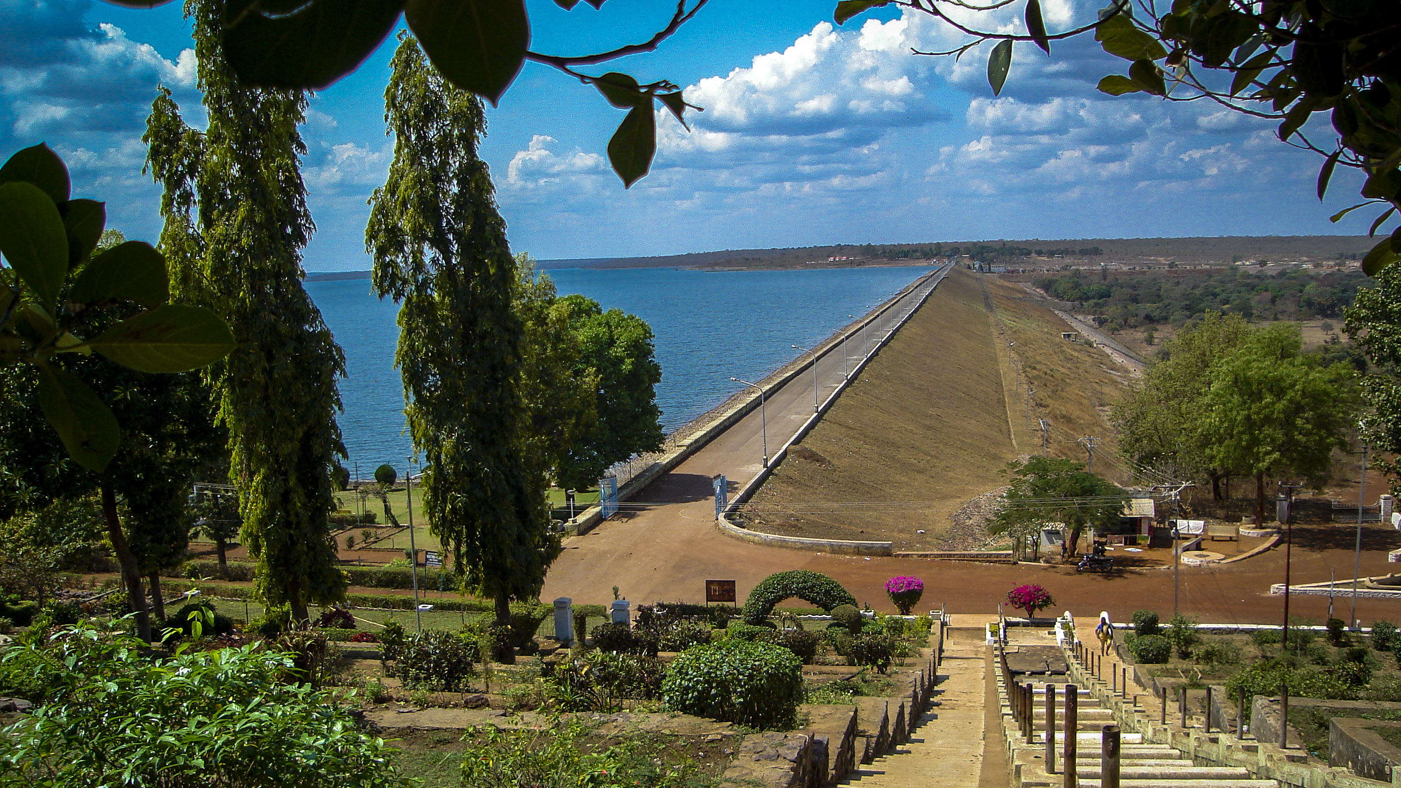 RAVISHANKAR SAGAR PROJECT GANGREL- 2